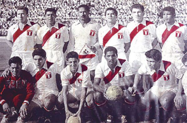 Peru national football team.